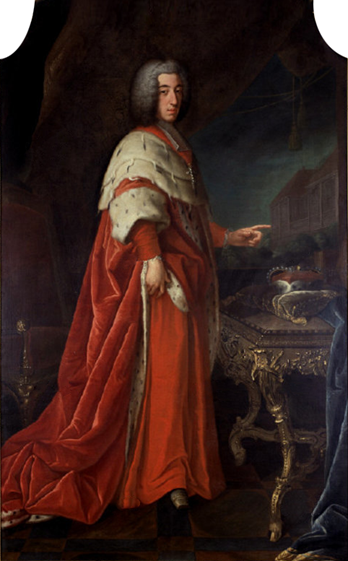 Portrait of a Bavarian prince, probably Clemens August of Bavaria (1700-1761)